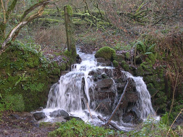 Woodland Waterfall. This waterfall appears to have been artificially created and runs down part of a stone wall.